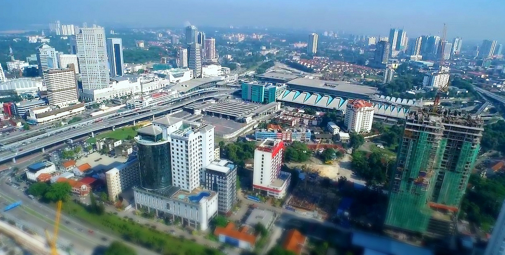 Johor Bahru aerial view, the southern-most city of Asia's mainland.